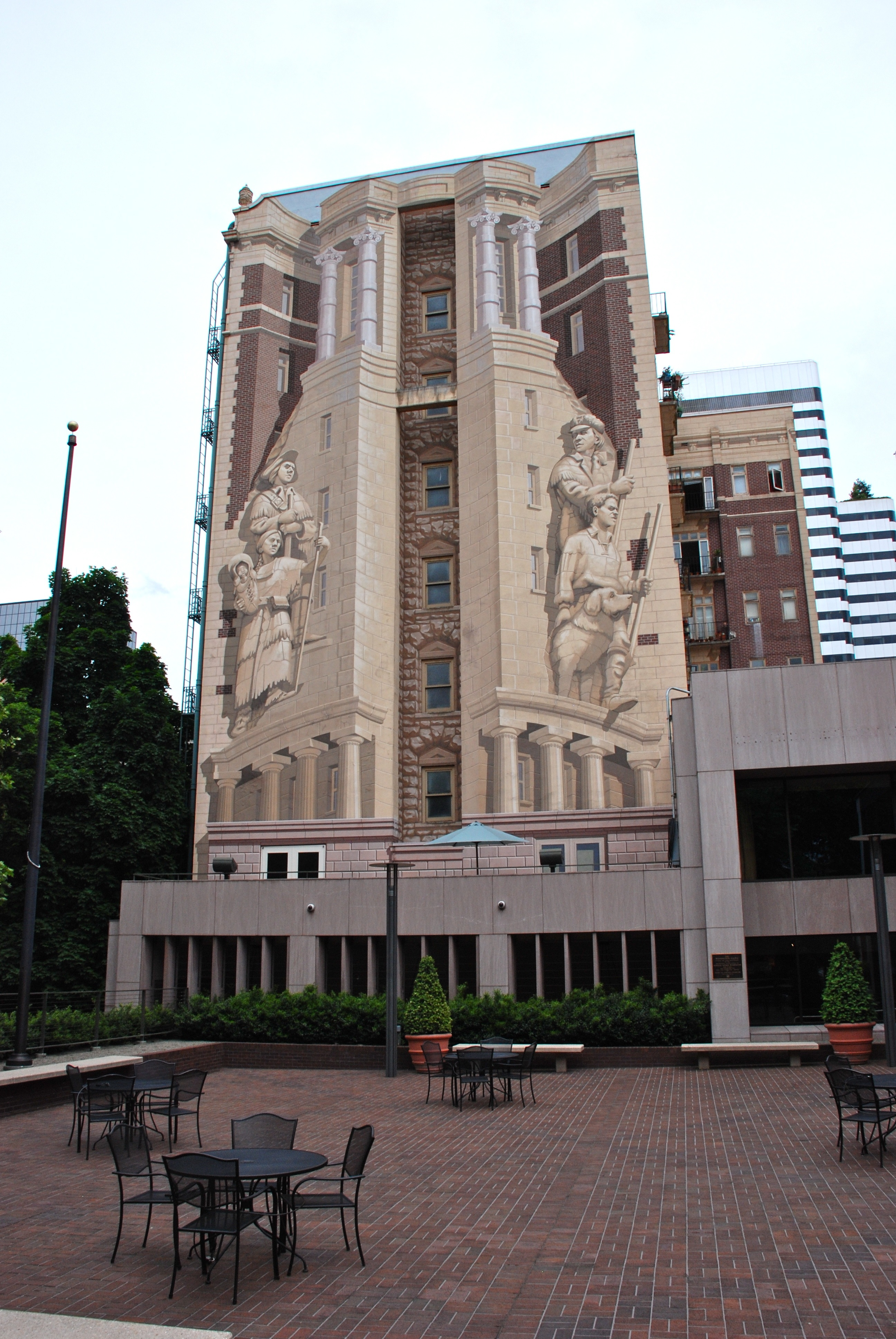 The back (west side) of the Sovereign Hotel building, a former hotel building that in recent years (1982–2014) was owned by the Oregon Historical Society. This view shows one of two large murals that were painted on two of the building's sides in 1989, giving the flat surfaces a faux three-dimensional appearance.